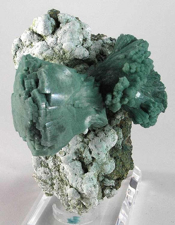 Heulandite, Celadonite Locality: Aurangabad District, Maharashtra, India (Locality at ) Size: 9.9 x 7.4 x 5.5 cm. This is a cluster of heulandite, familiar from India with a peachy pink color but sometimes from this locality included with celadonite so that it takes on a green color. Ex. Ed David Collection.